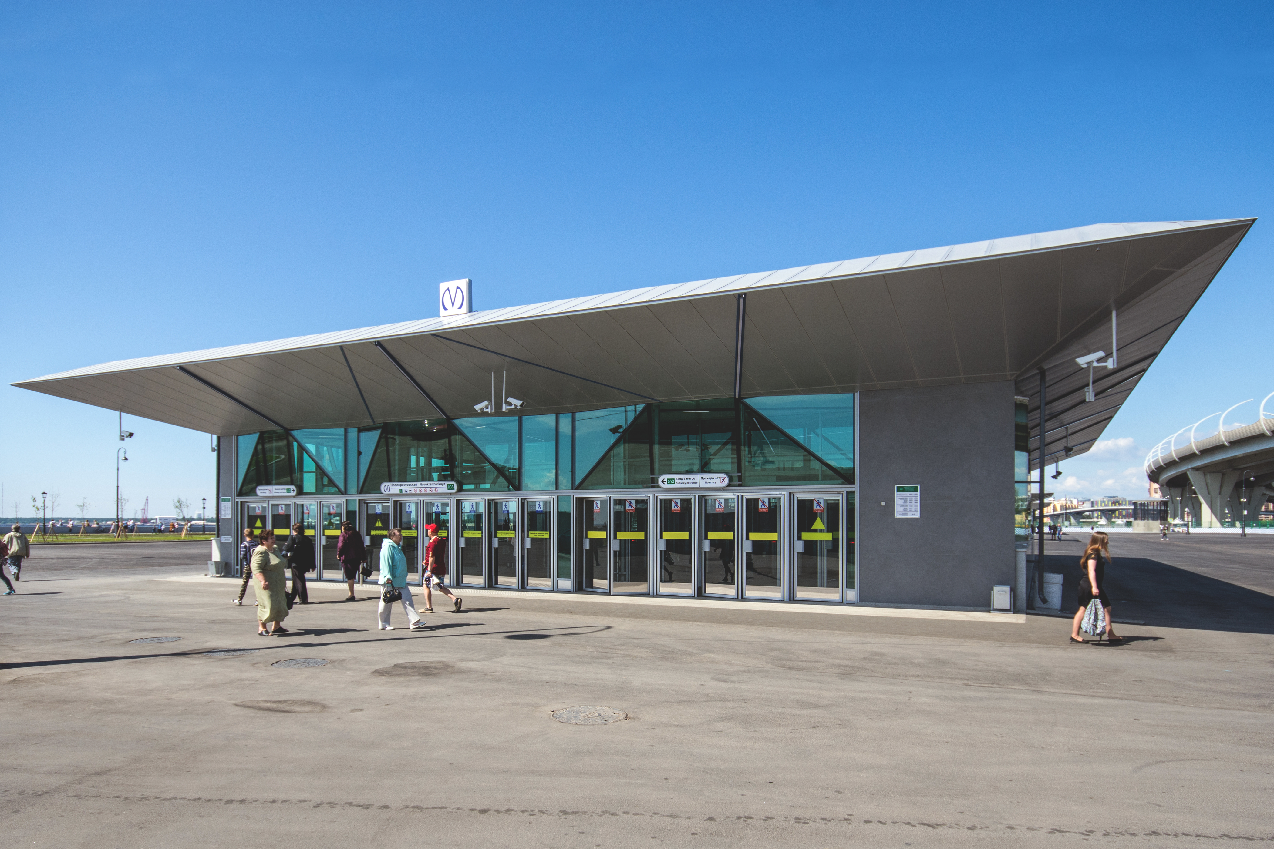 Novokrestovskaya station of Saint Petersburg Metro